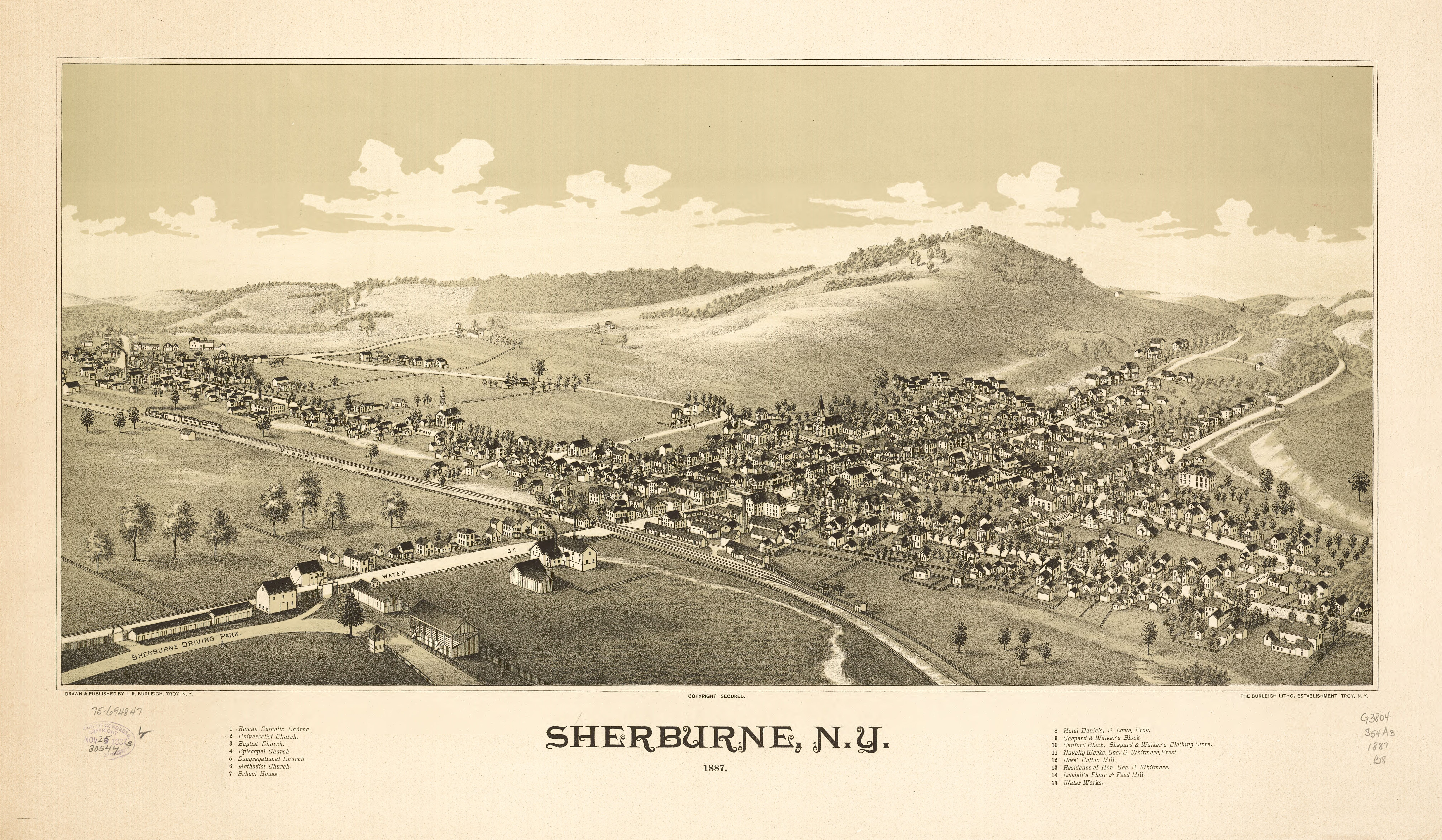 Perspective map not drawn to scale. Bird's-eye-view. LC Panoramic maps (2nd ed.), 633 Available also through the Library of Congress Web site as a raster image. Indexed for points of interest. AACR2